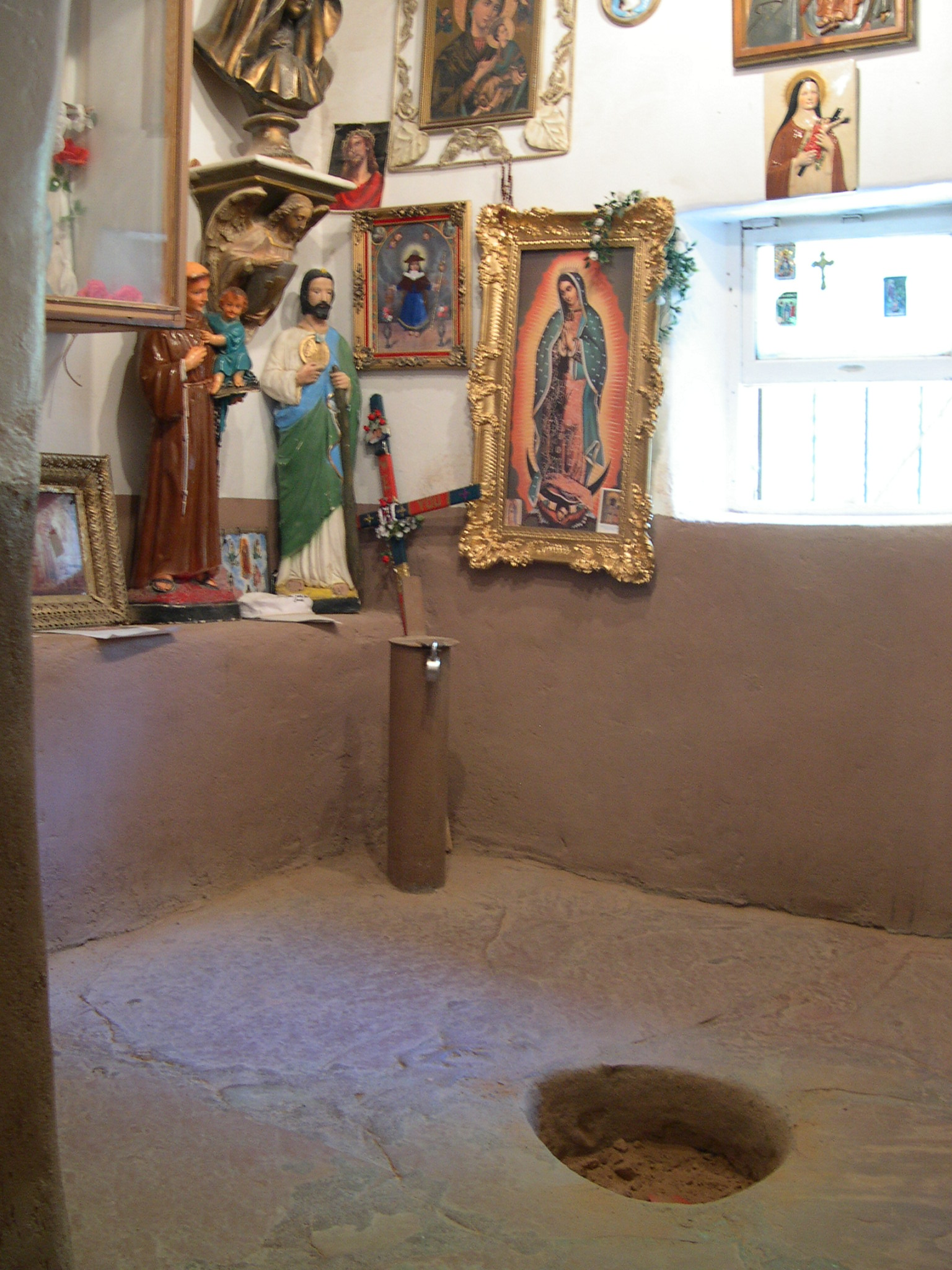 El Santuario de Chimayo, 1 mile northwest of the Santa Cruz Reservoir Dam Chimayo